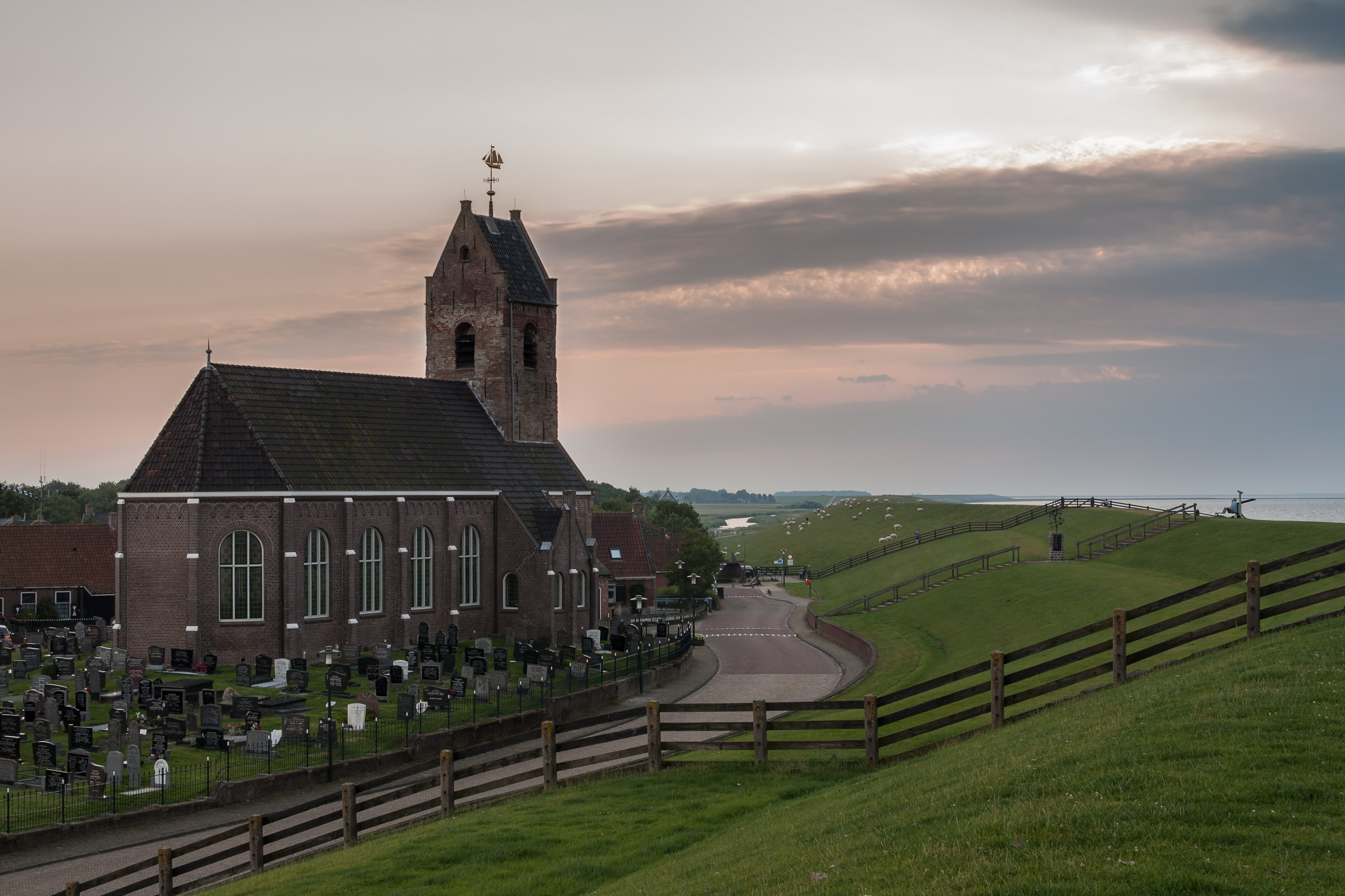 The Maria Church in Wierum